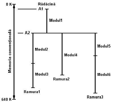 Overlay structure, one level.